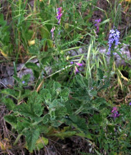 Verbena lasiostachys (western vervain) — at Point Mugu State Park. Big Sycamore Canyon trail, in the Santa Monica Mountains National Recreation Area, California.